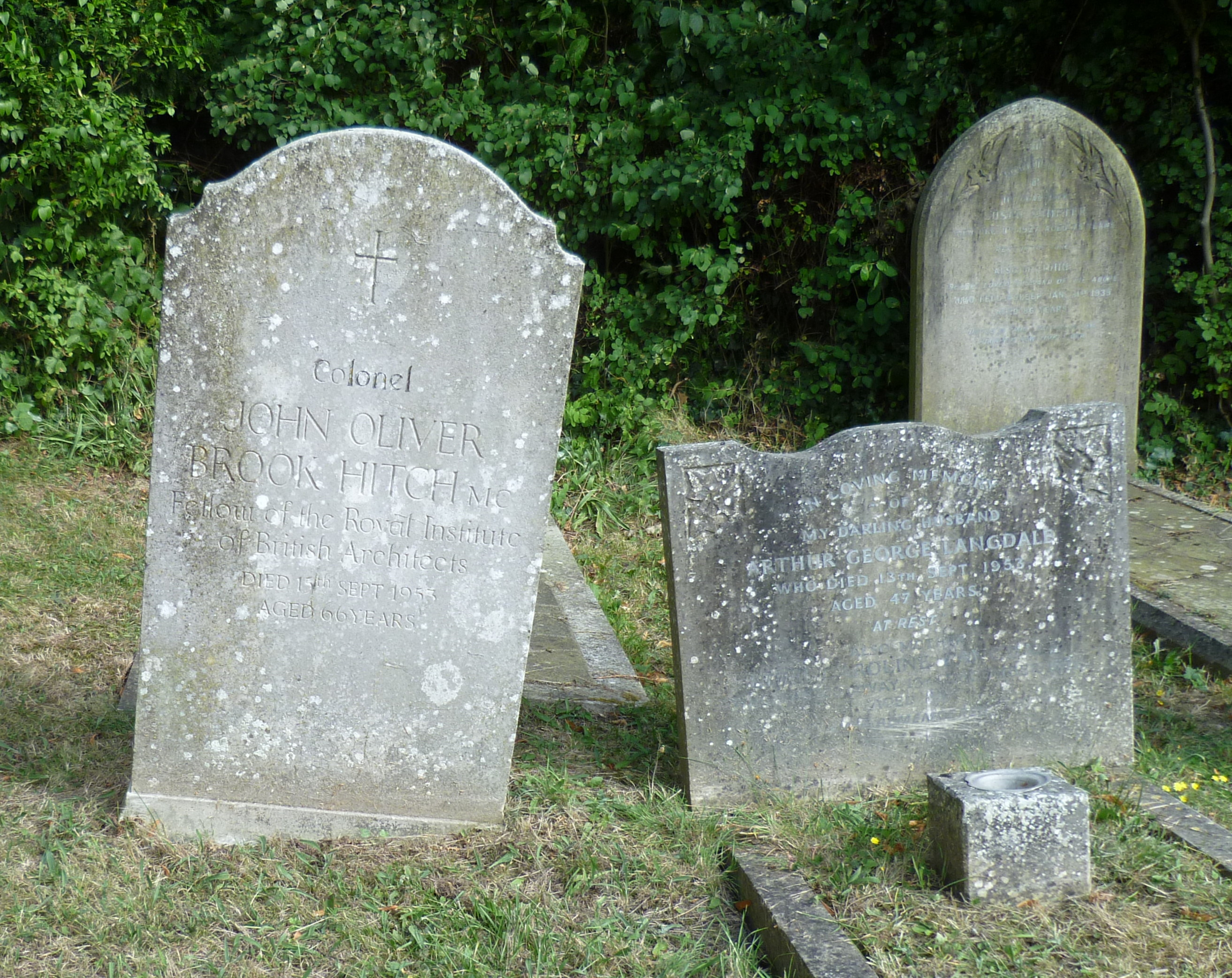 Bell's Hill, Chipping Barnet